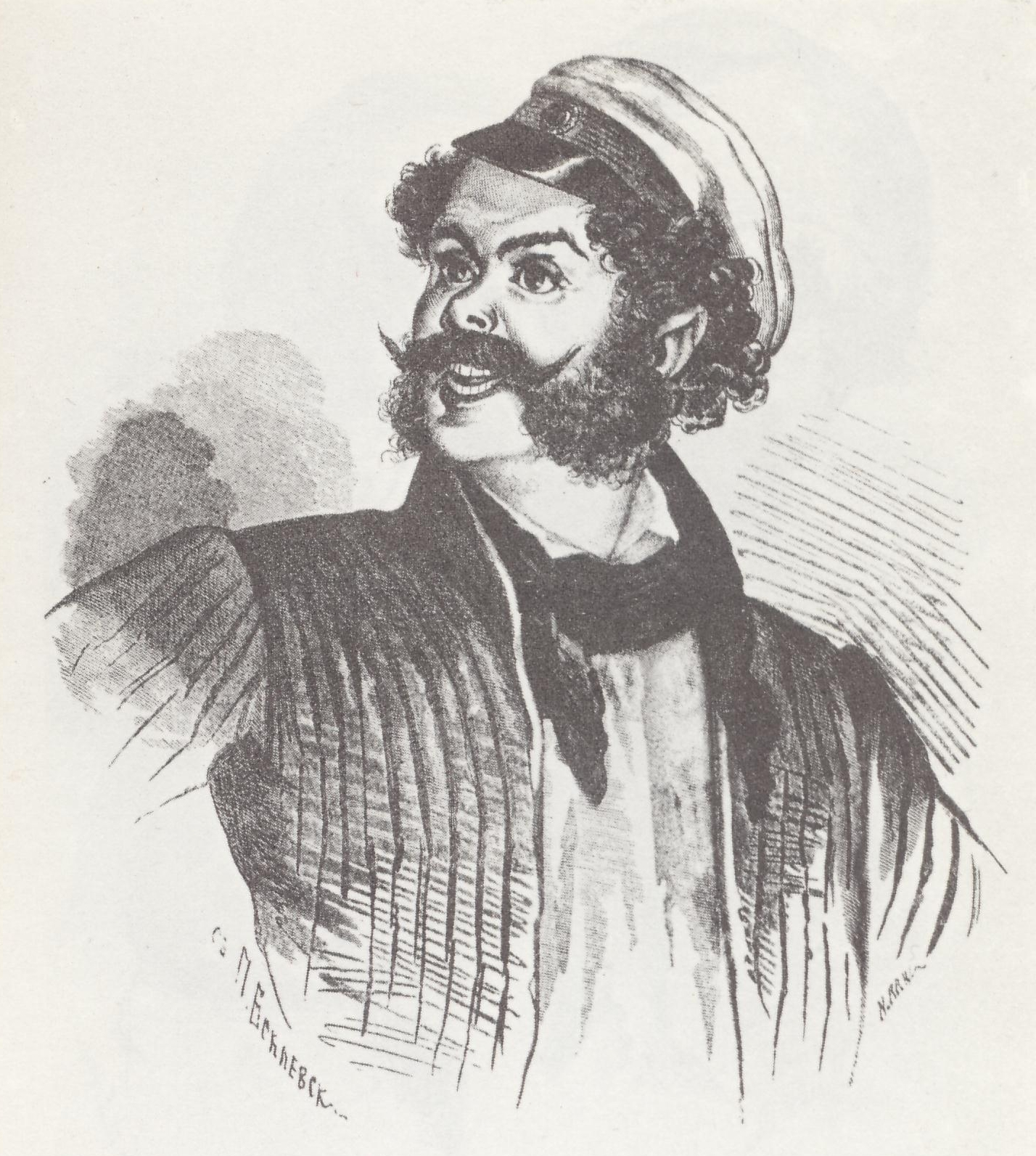 Nozdryov. Illustration for Nikolai Gogol's Dead Souls